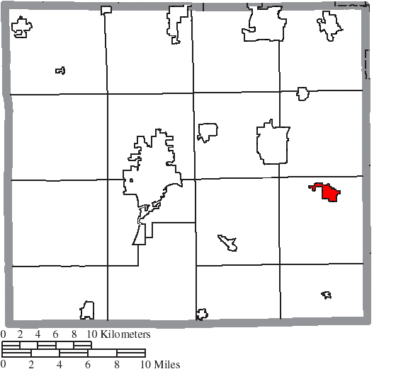 Map of the municipal and township boundaries of Wayne County, Ohio, United States, as of the 2000 census, with the location of the village of Dalton highlighted. Township borders are shown only in unincorporated areas in order to differentiate incorporated and unincorporated areas more clearly.